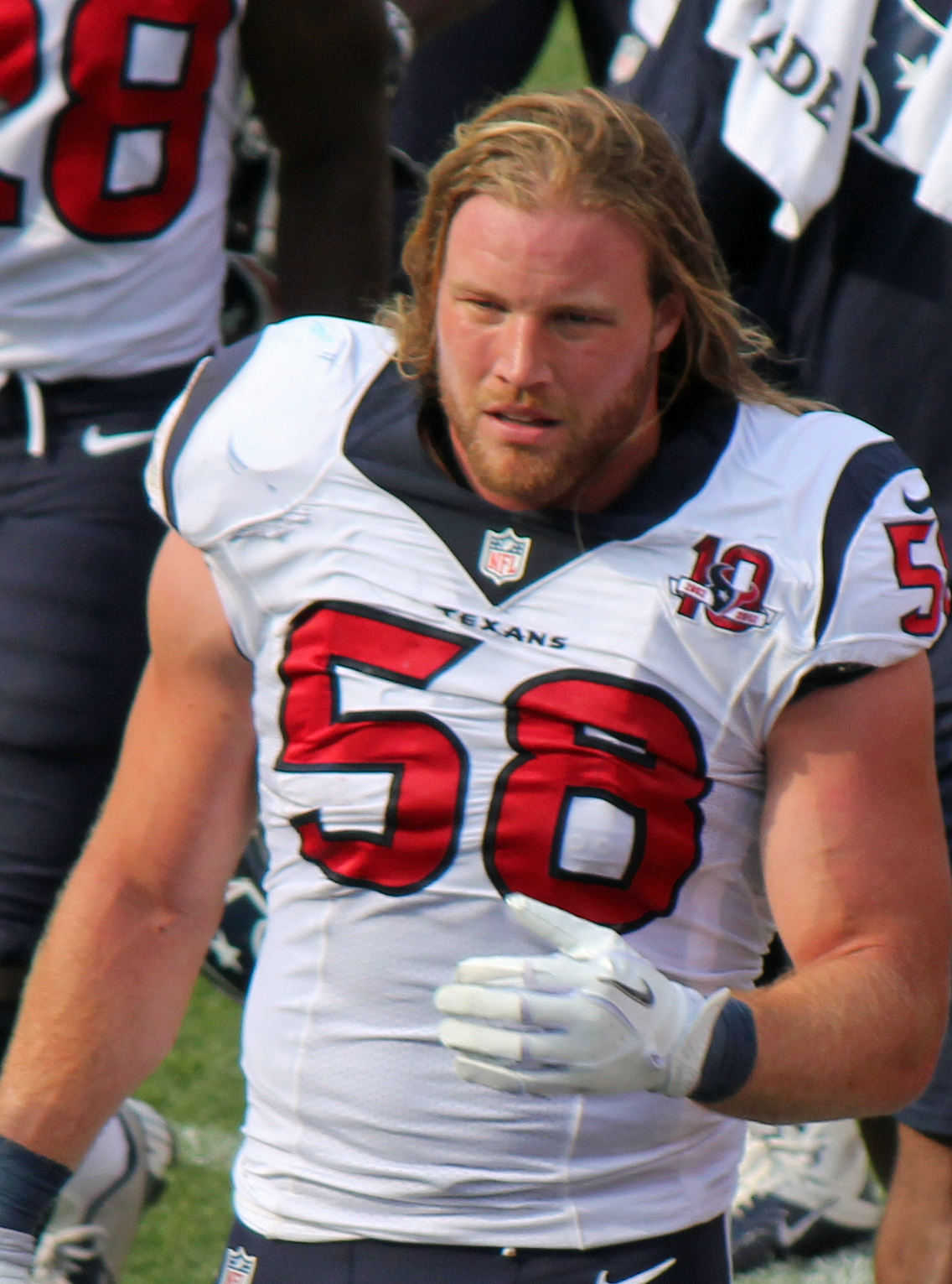 Brooks Reed, a player on the National Football League.